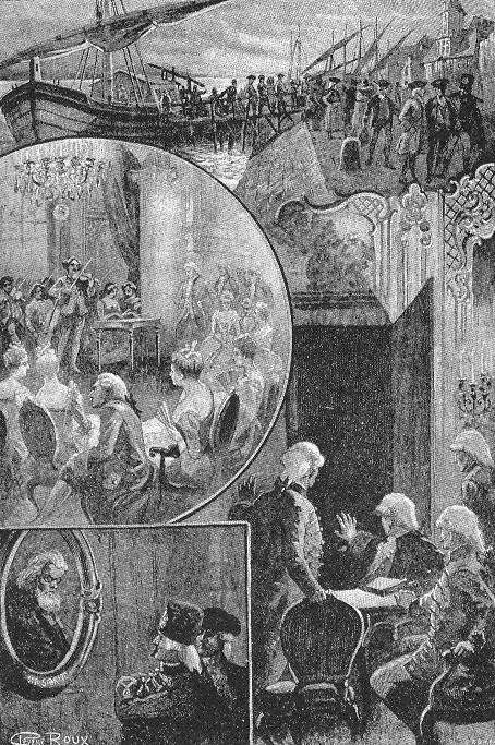 An illustration from Jules Verne's novel "The Secret of William Storitz" (written in 1898, firts published in 1910 after his death with changes made by his son Michel) drawn by George Roux.